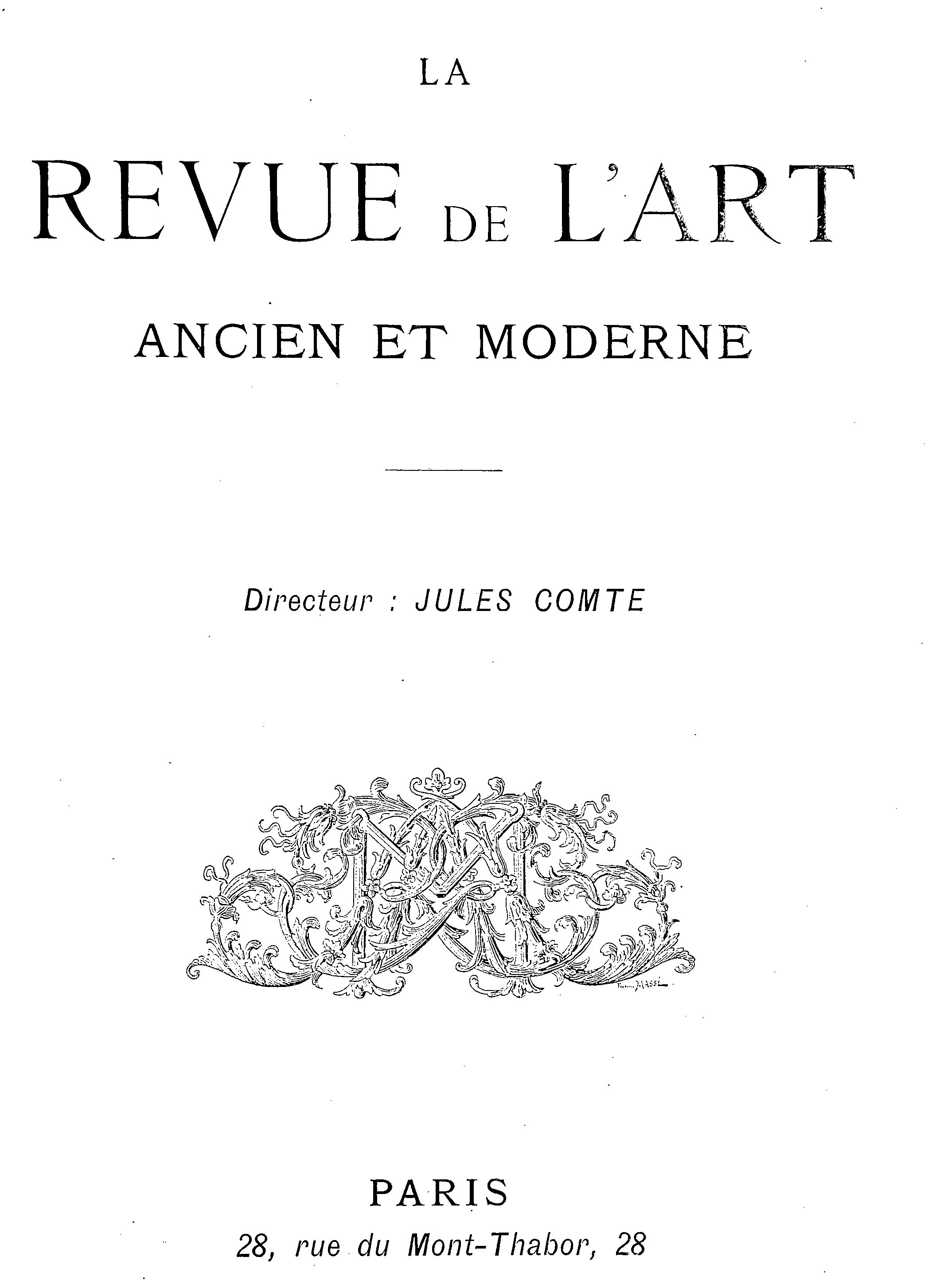 Cover page of La Revue de lArt ancien et moderne, January 1901